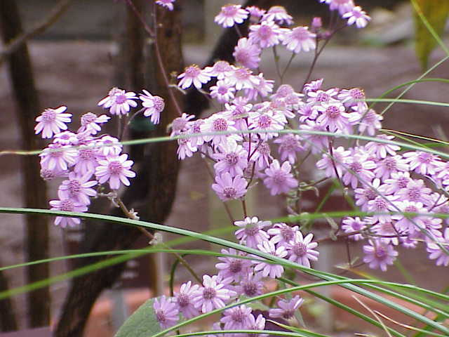 Species: Pericallis cruenta Family: Asteraceae Image No. 2